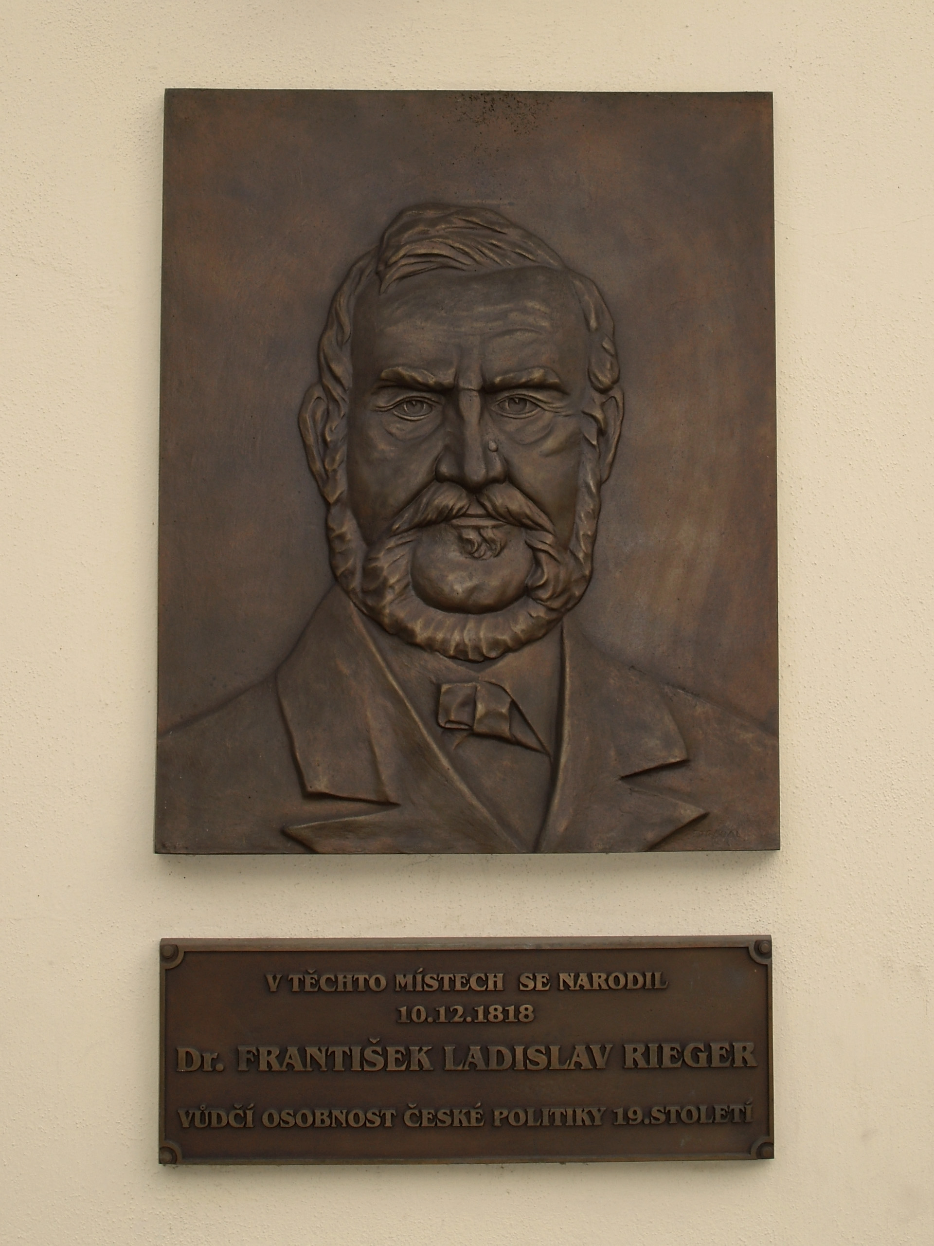 Plaque on “Rieger House”—Birthhouse of Czech politician František Ladislav Rieger in Czech town Semily; sculptor unknown